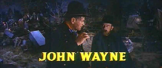 Cropped screenshot of John Wayne from the trailer for the film How the West Was Won